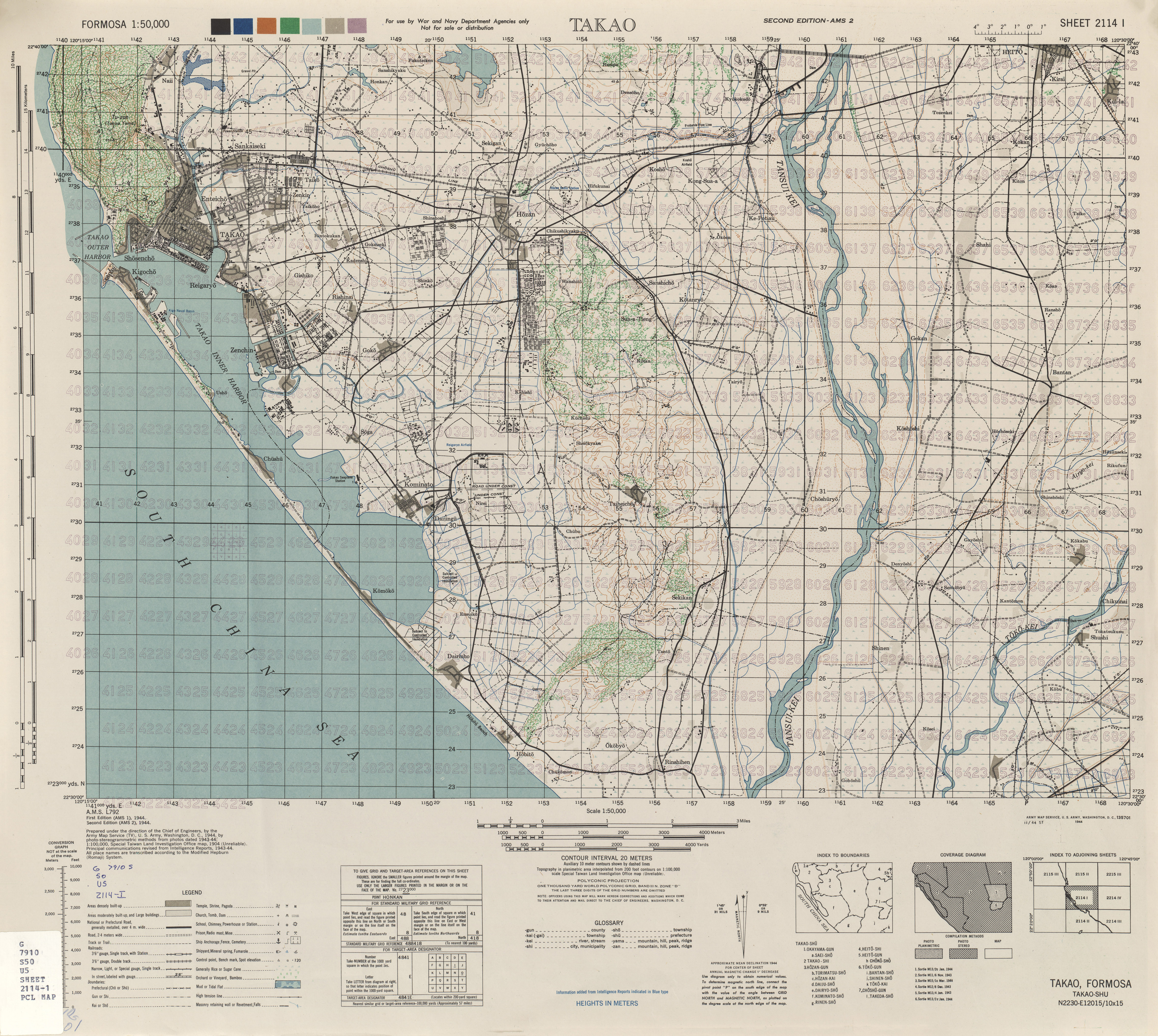 Map from Formosa (Taiwan) 1:50,000 AMS Series L792